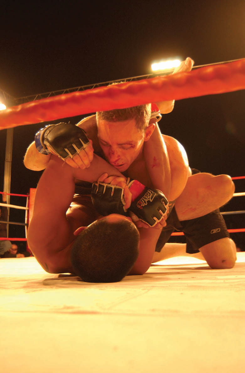 Usage of the guard position in a mixed martial arts bout.